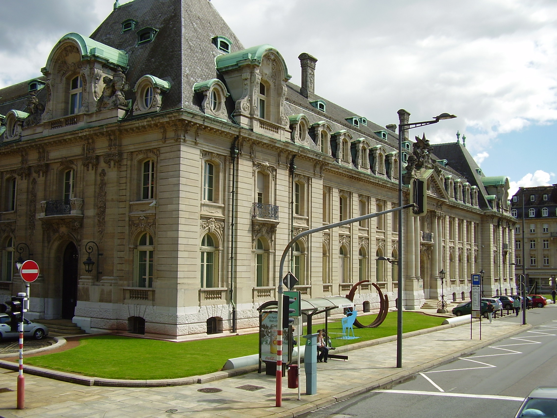 headquarder of ArcelorMittal in Luxemburg city